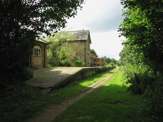 Reepham railway station Original description: The former Reepham Railway Station The former Reepham railway station is located about 1 kilometre north of the centre of Reepham, by the B1145 to Aylsham. The station was opened in 1881; closed to passengers in 1952 it became redundant when closed to goods services also, in 1964. A section of the Marriott's Way, a long distance foot and cycle path, now follows the former railway trackbed.